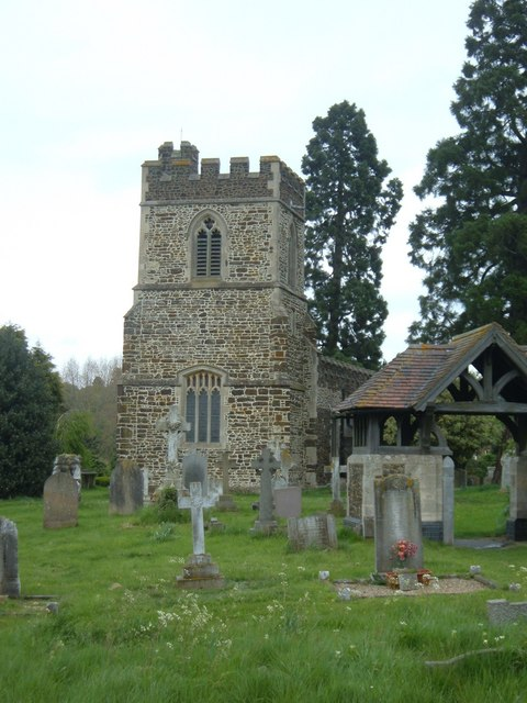 St Marys Church, Old Linslade